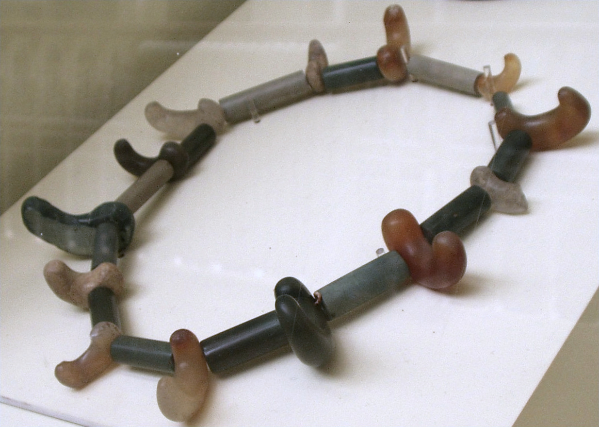 Necklace of jade magatama from a Japanese burial. (Earlier than 19th century)